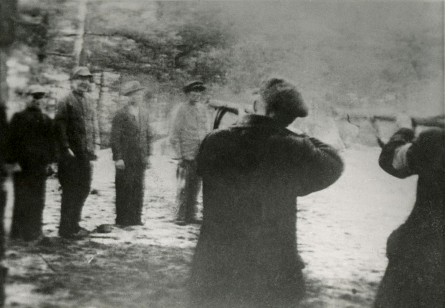 Mass execution of Poles in Piaśnica (Groß Piasnitz) in the Darzlubska Wilderness (Polish Pomerania) conducted by nazi Germans. In the foreground a firing squad composed of members of so-called "Volksdeutscher Selbstschutz". The picture was taken by Waldemar Engler - volksdeutscher from Wejherowo and member of the SS (he was photographer in civilian life) Prints of photos that he made in Piaśnica were stolen by his Polish workers. One of them Józef Czosek (d. 2004), revealed his secret two weeks before death of old age.[1]